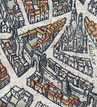 Montmartre gate on the plan of Braun and Hogenberg (c.1530, published in 1572, edition of 1593).